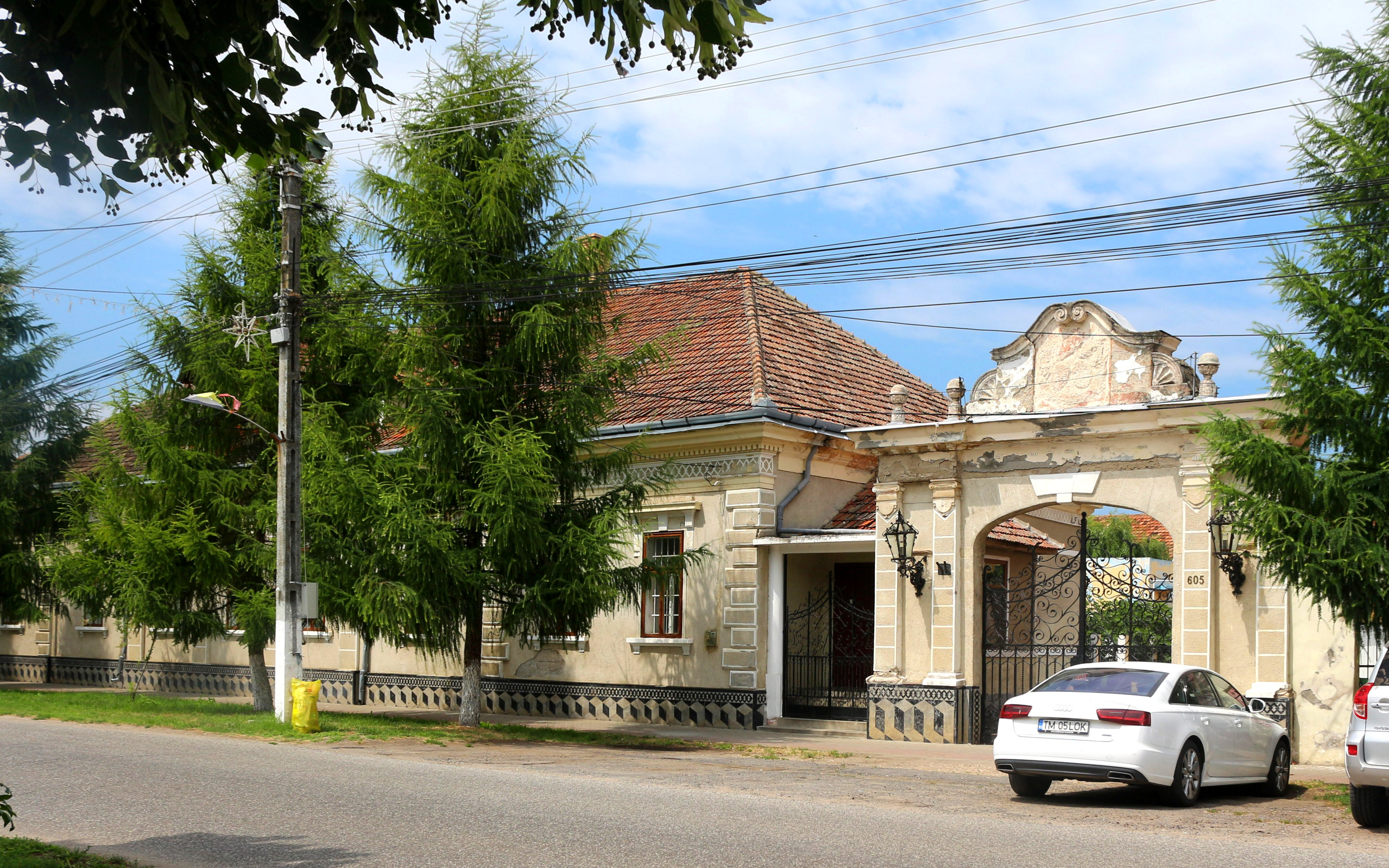 San Marco Mansion, entrance and west side, Comloșu Mare, Timiș County, built 1856